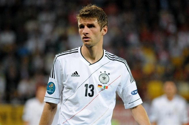 Match between Germany and Portugal during UEFA Euro 2012 that took place in Lviv. Final score was 1:0 (Gómez).